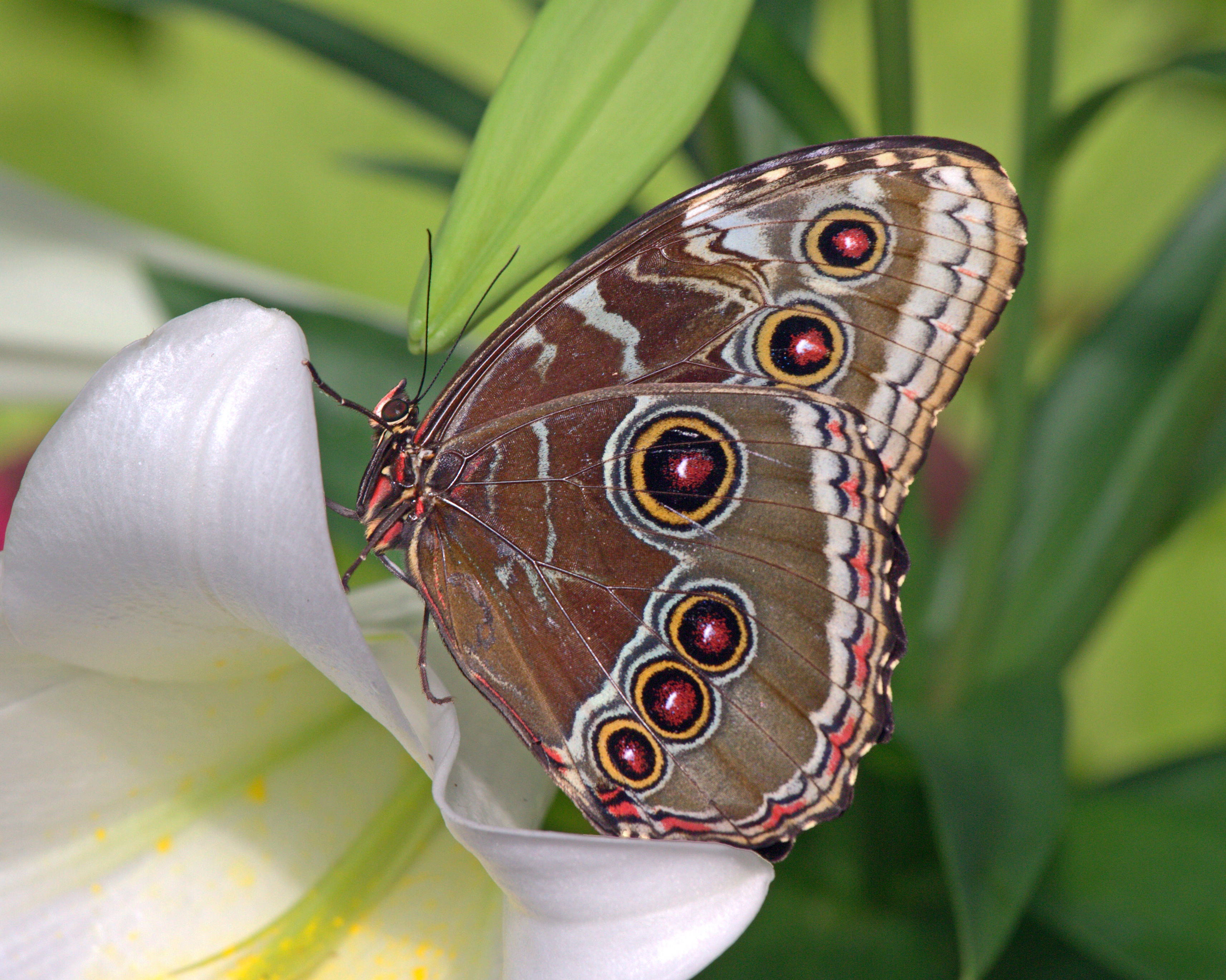 Morpho peleides - taken at Krohn Conservatory in Cincinnati, OH.